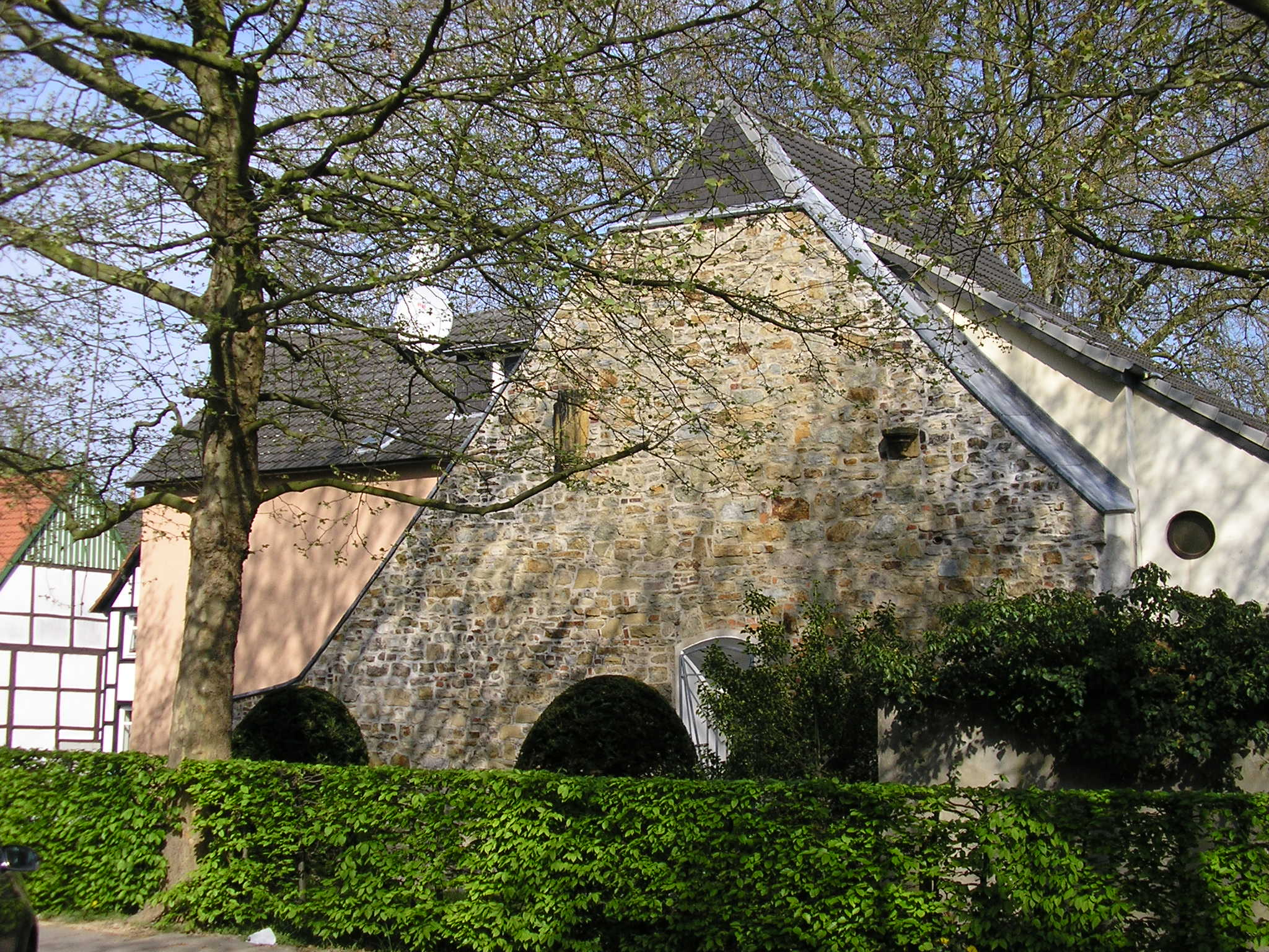 Ruin of chapel in Herford, District of Herford, North Rhine-Westphalia, Germany.